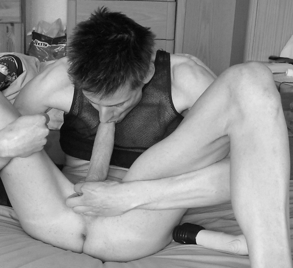 Autofellatio